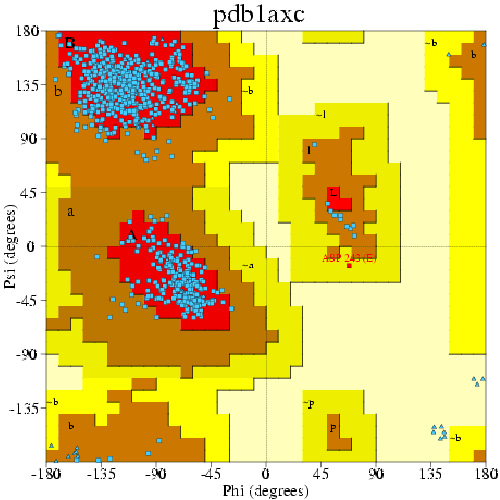 A Ramachandran plot generated from human PCNA, a trimeric DNA clamp protein that contains both β-sheets and α-helices (PDB code 1AXC). The red, brown, and yellow regions represent the favored, allowed, and "generously alowed" regions as defined by the 1992 treatment in ProCheck, the first use of Ramachandran plots for structure validation. From the PDBsum page for 1AXC at the RCSB Protein Data Bank.